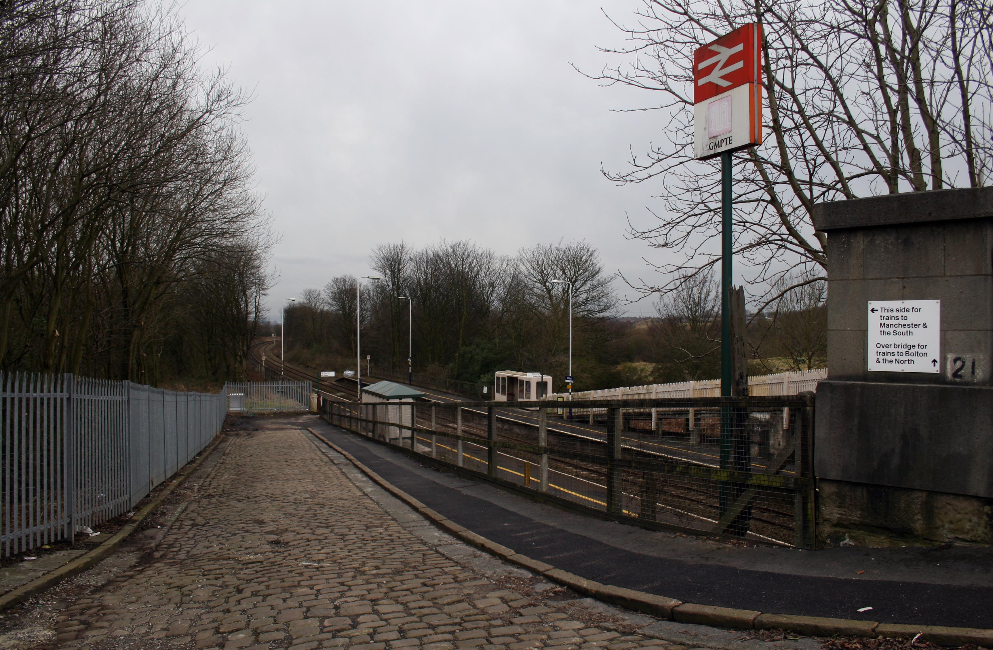 Clifton Railway Station, Bolton